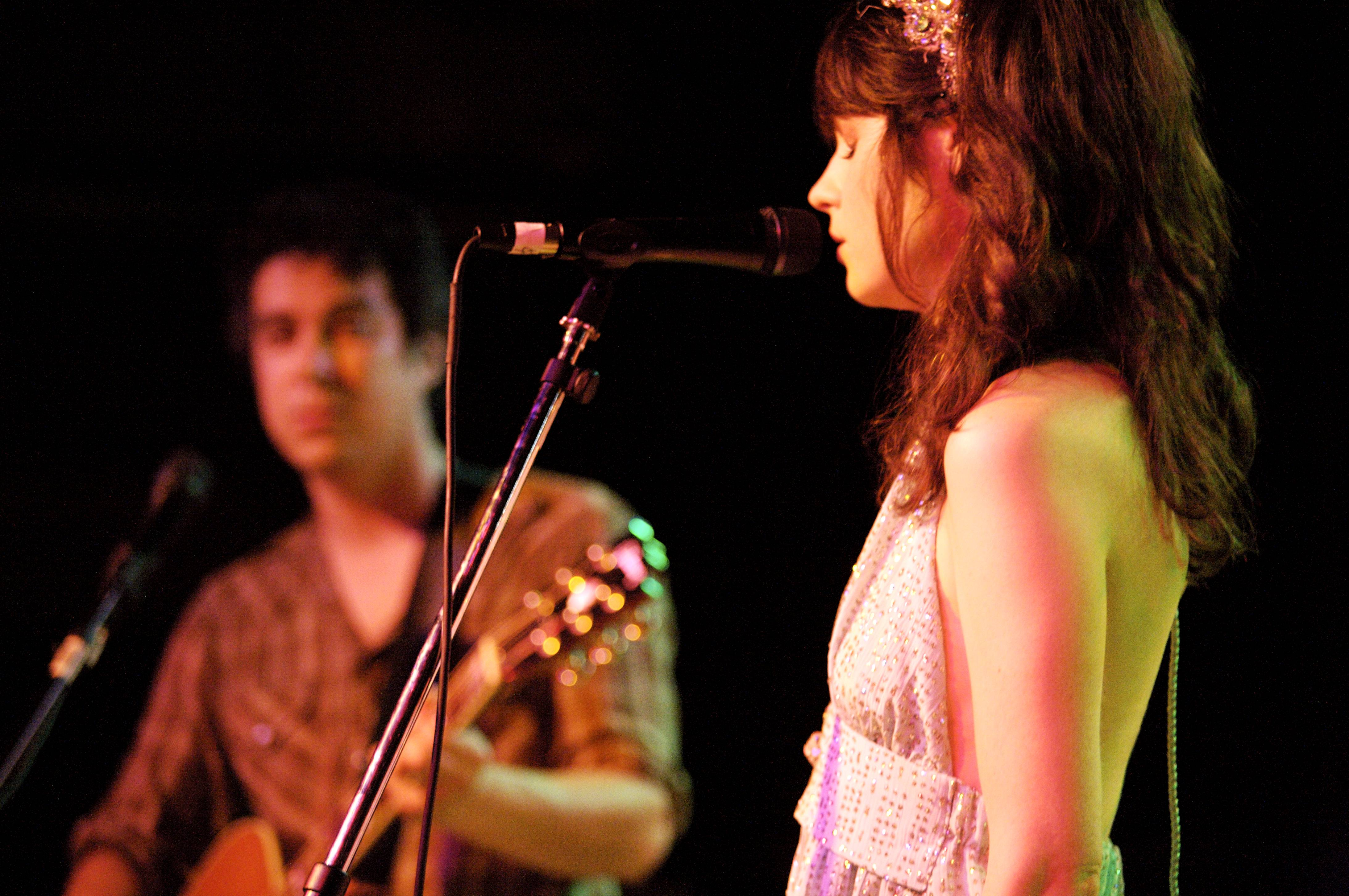 She & Him @ Mercy Lounge in Nashville, TN